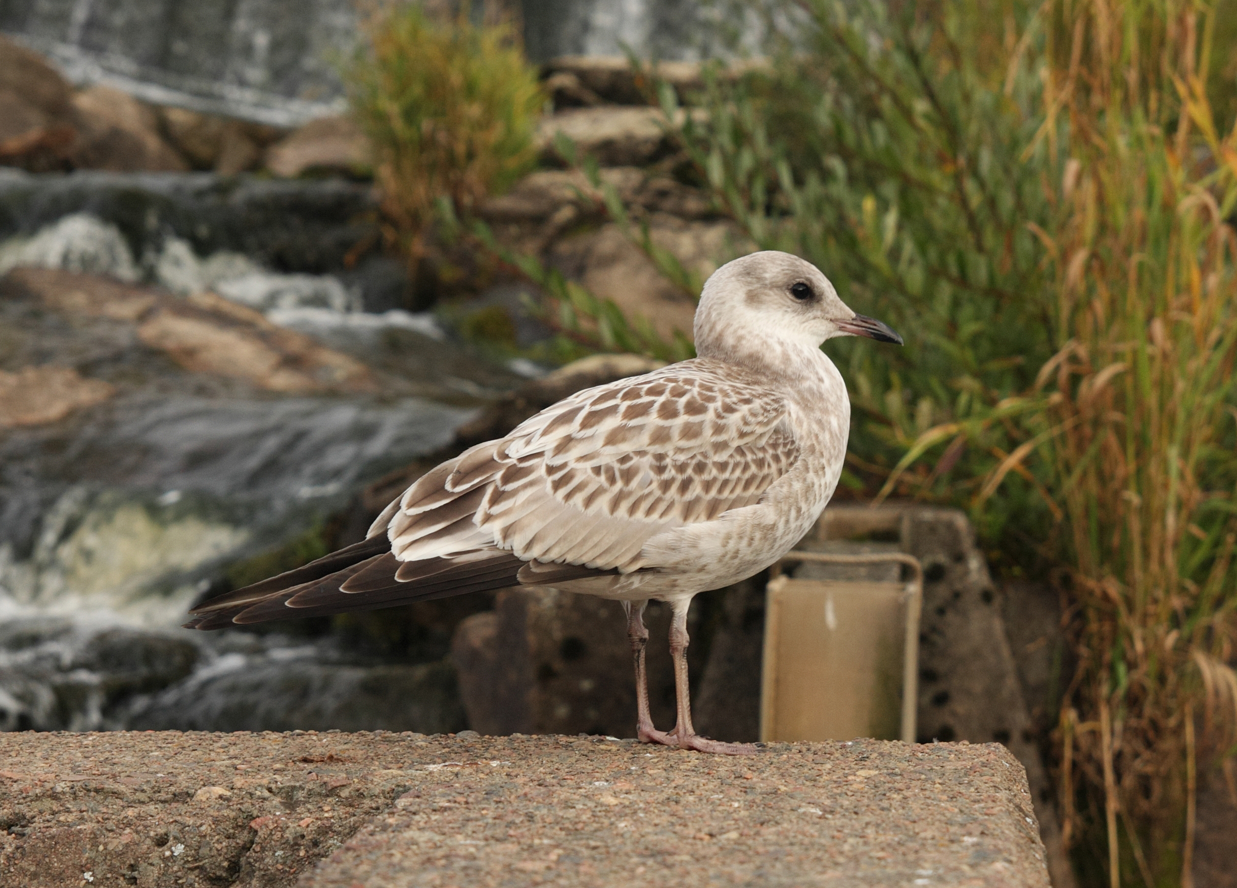 Juvenile Common Gull at Halistenkoski, Turku.